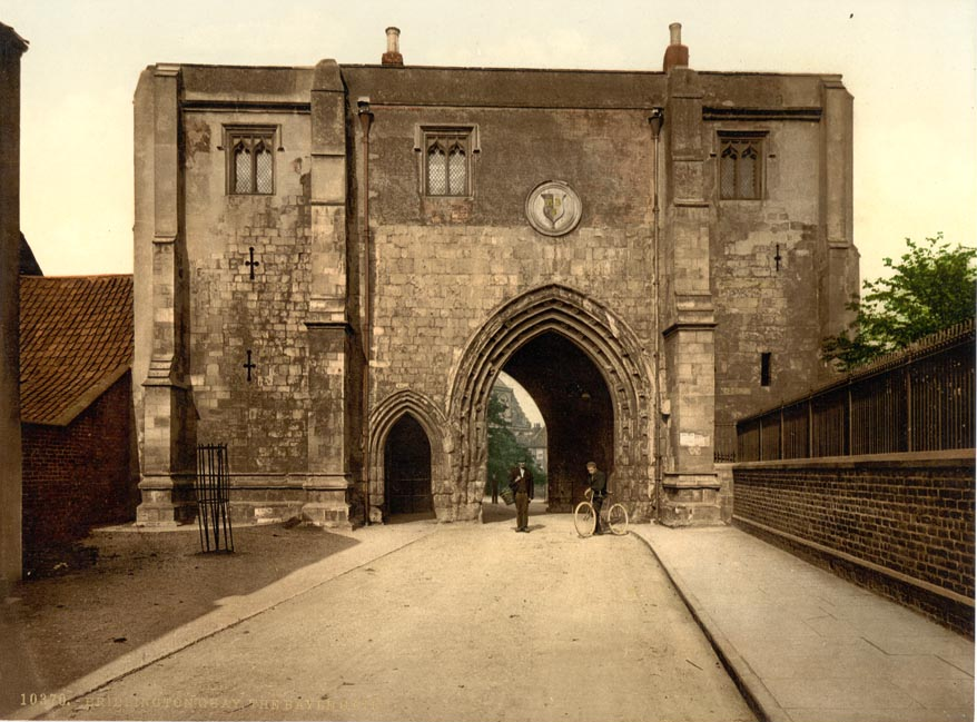 The Bayle Gate, Bridlington, East Riding of Yorkshire, England.